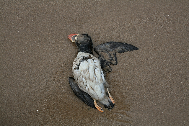 Dead Puffin. Walking along the beach in Machrihanish Bay I noticed a bird of some sort floating in the water. When I passed back, an hour or so later, it had washed ashore.